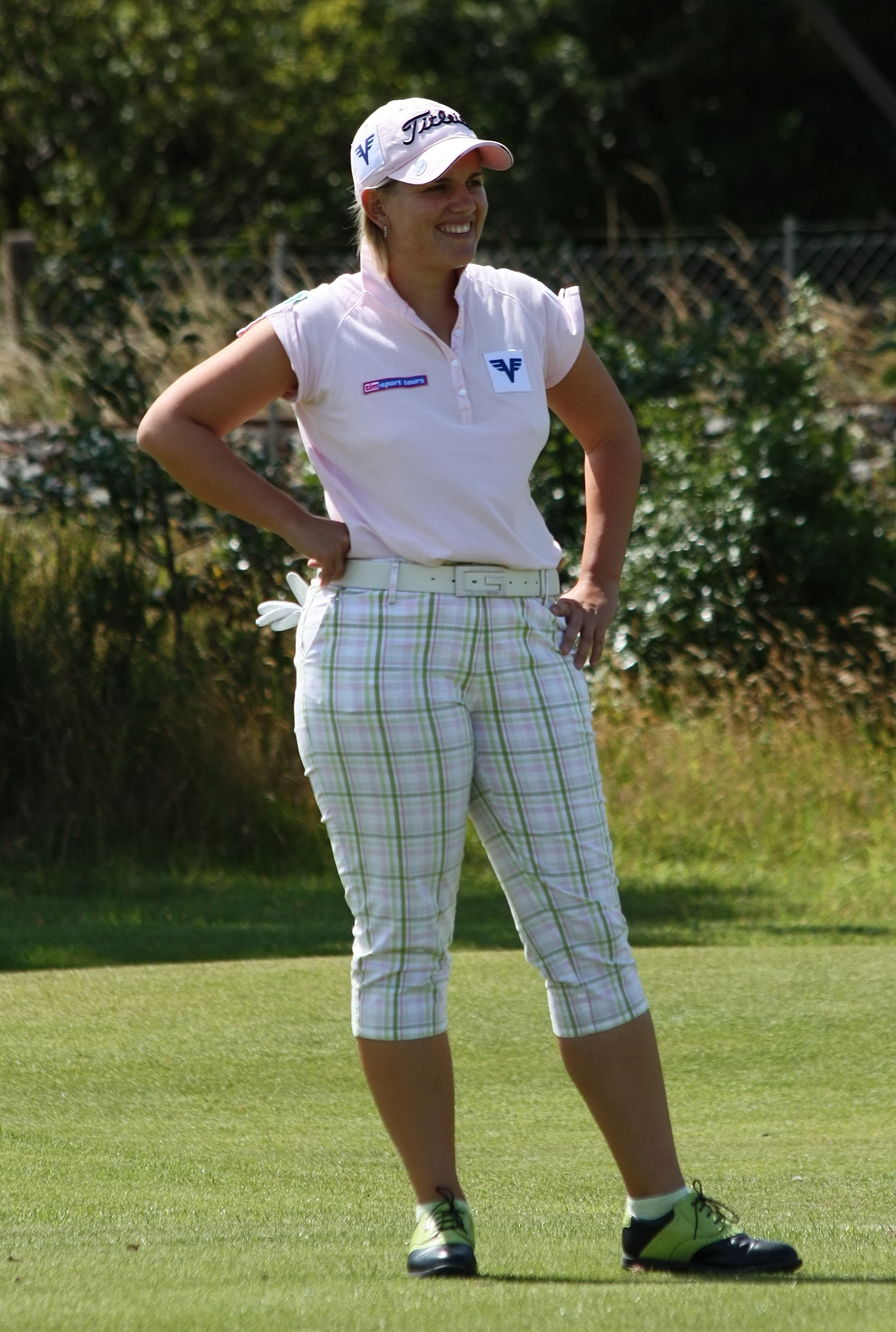 LYTHAM ST ANNES, UNITED KINGDOM - JULY 27: Nicole Gergely of Austria on the 2nd fairway during first practice round before 2009 Ricoh Women's British Open held at Royal Lytham & St Annes on July 27, 2009 in Lytham St Annes, England. (Photo by Wojciech Migda)